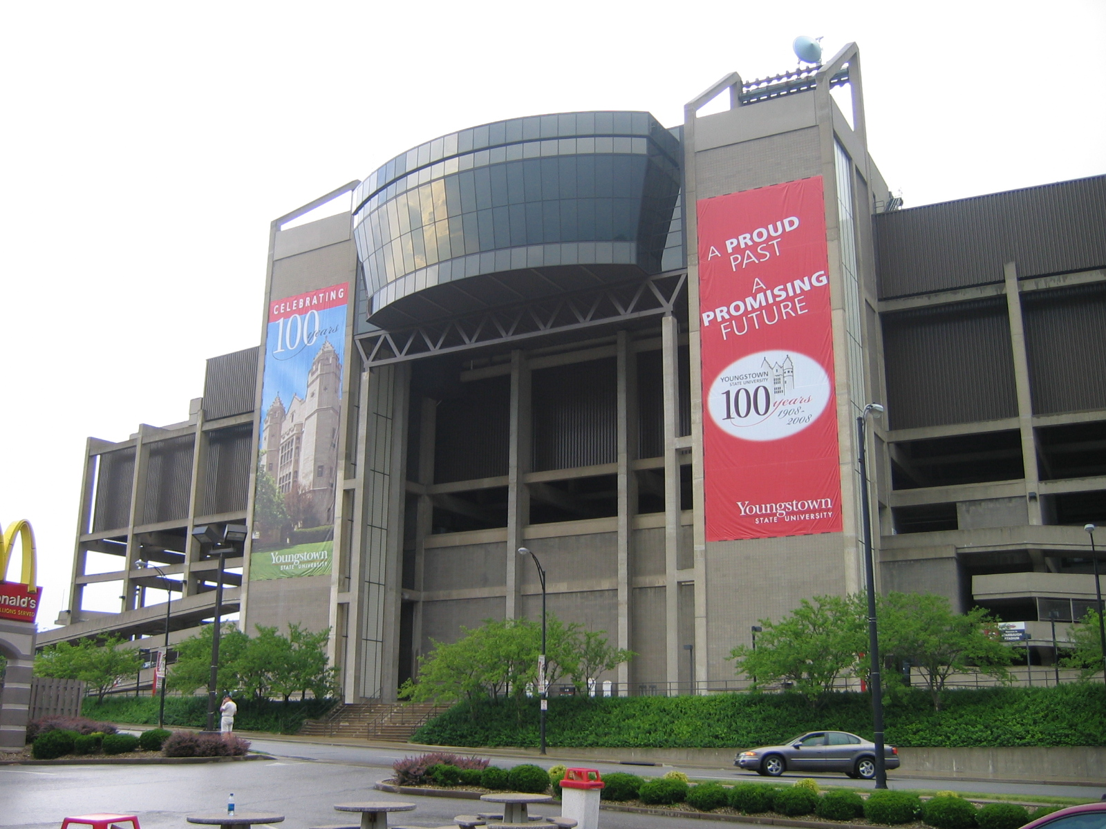 Football & Basketball Facilities Youngstown State Football Stadium